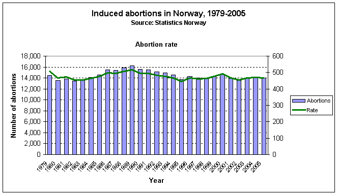 Time series of induced abortions in Norway